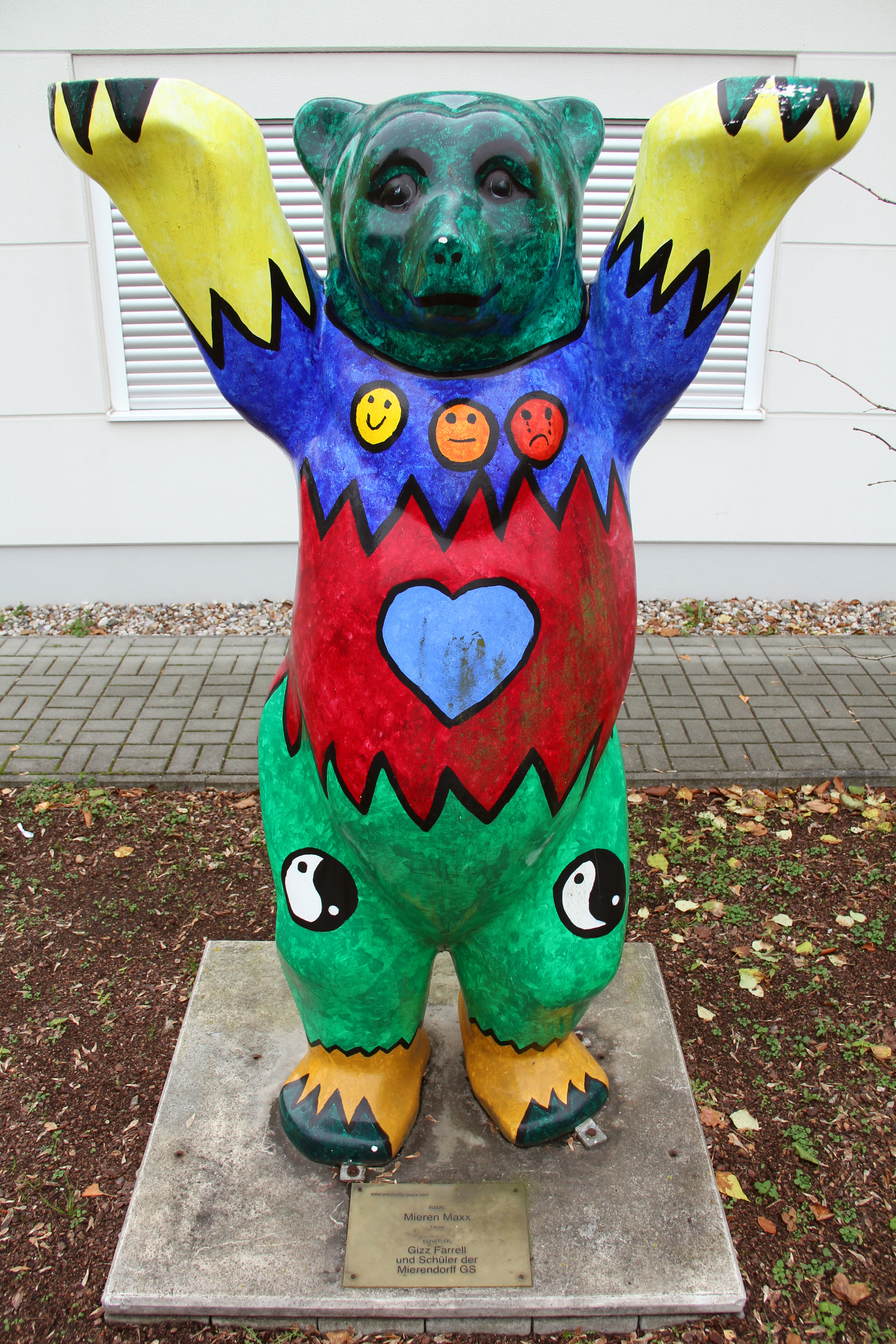 Sculpture, Buddy Bär Mieren Maxx, Nordlichtstraße 35, Berlin-Reinickendorf, Germany